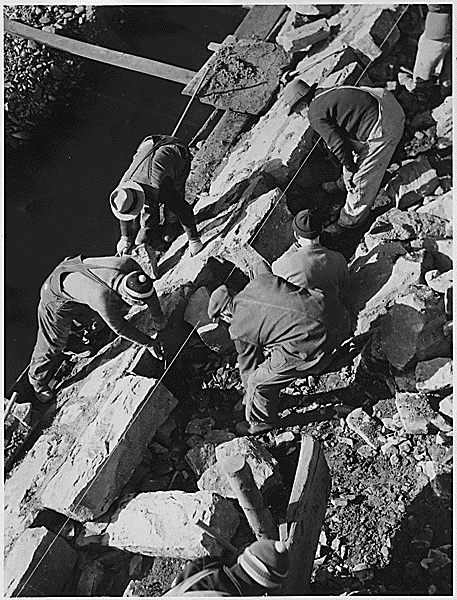 Works Progress Administration road project. (53227(2017), 27-0834a.gif)